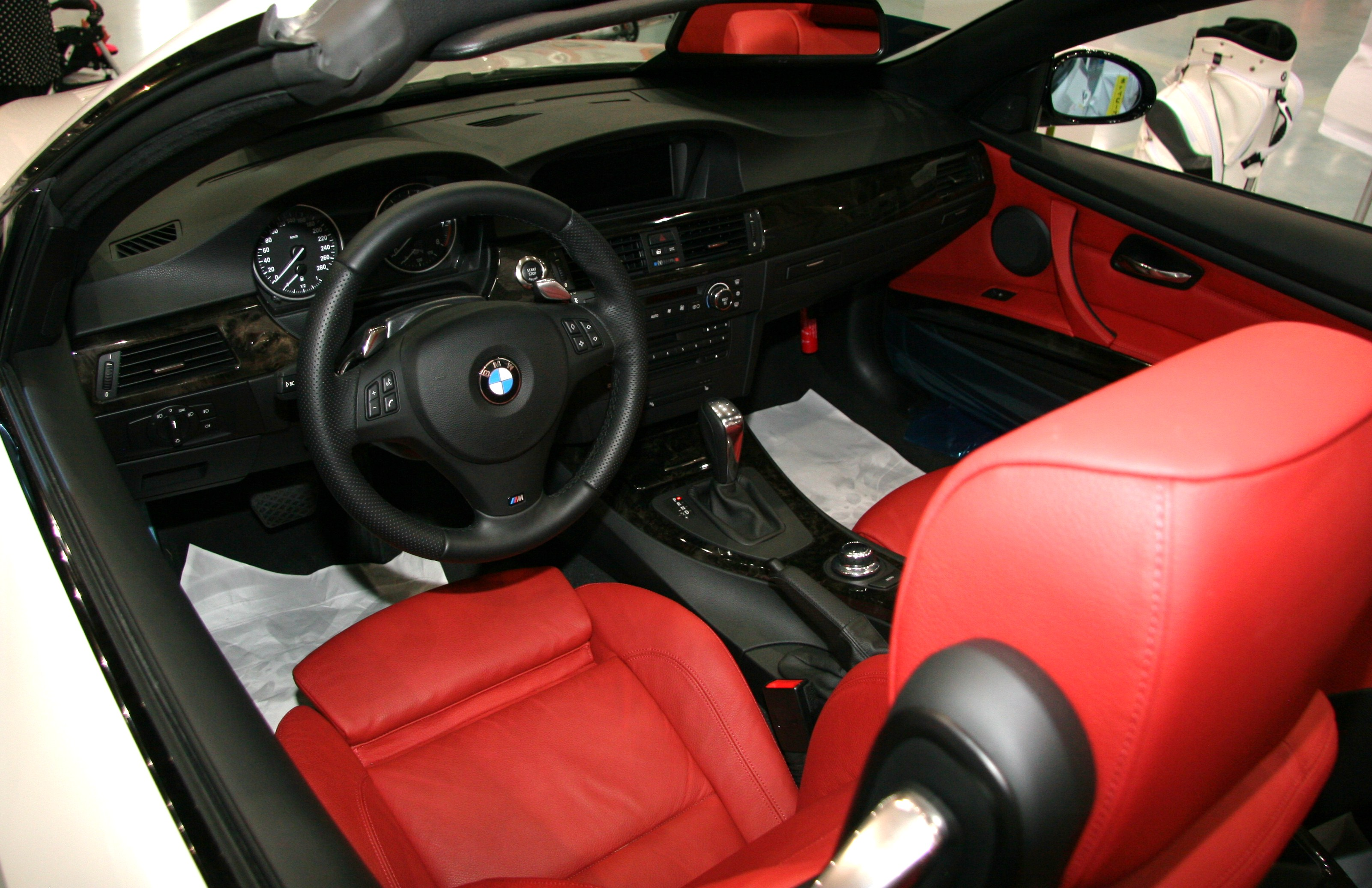 BMW 3-Series Cabriolet